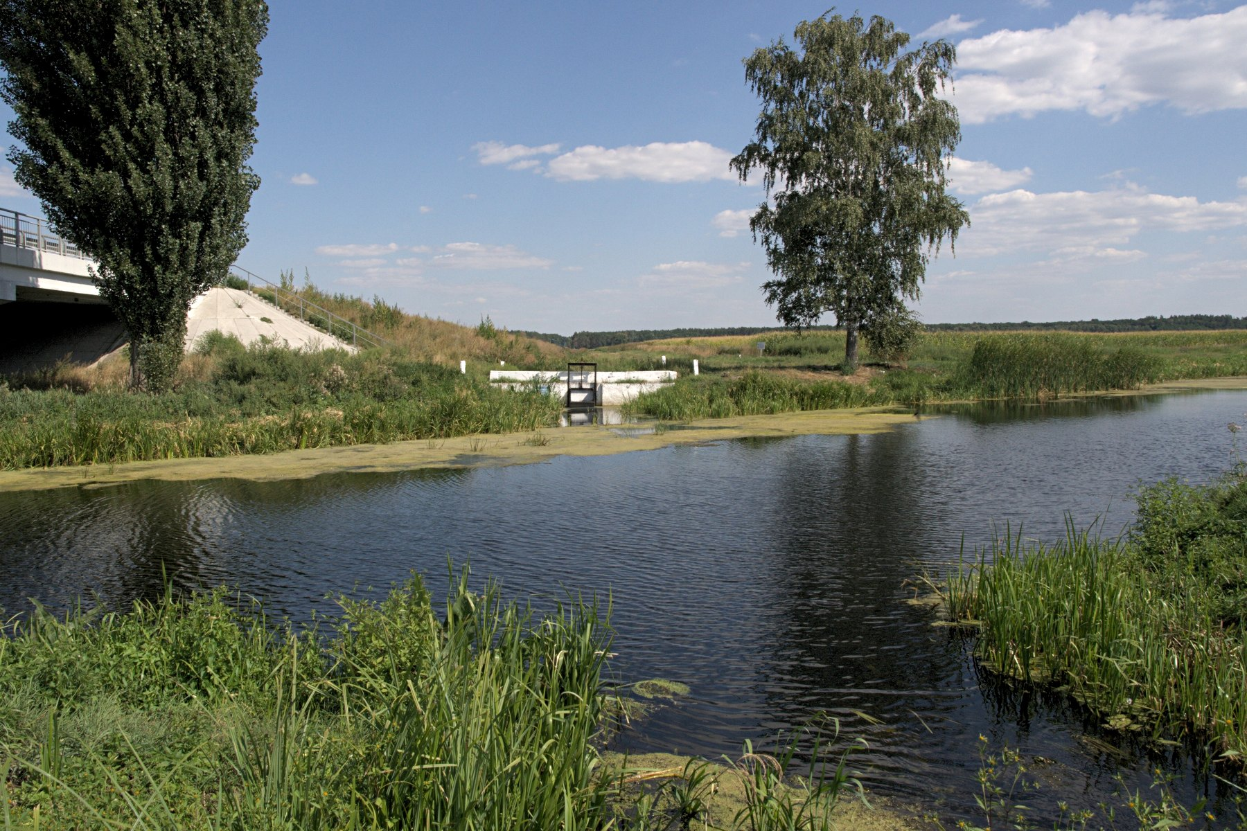 Trubizh River near the village Borschiv — drainage system.